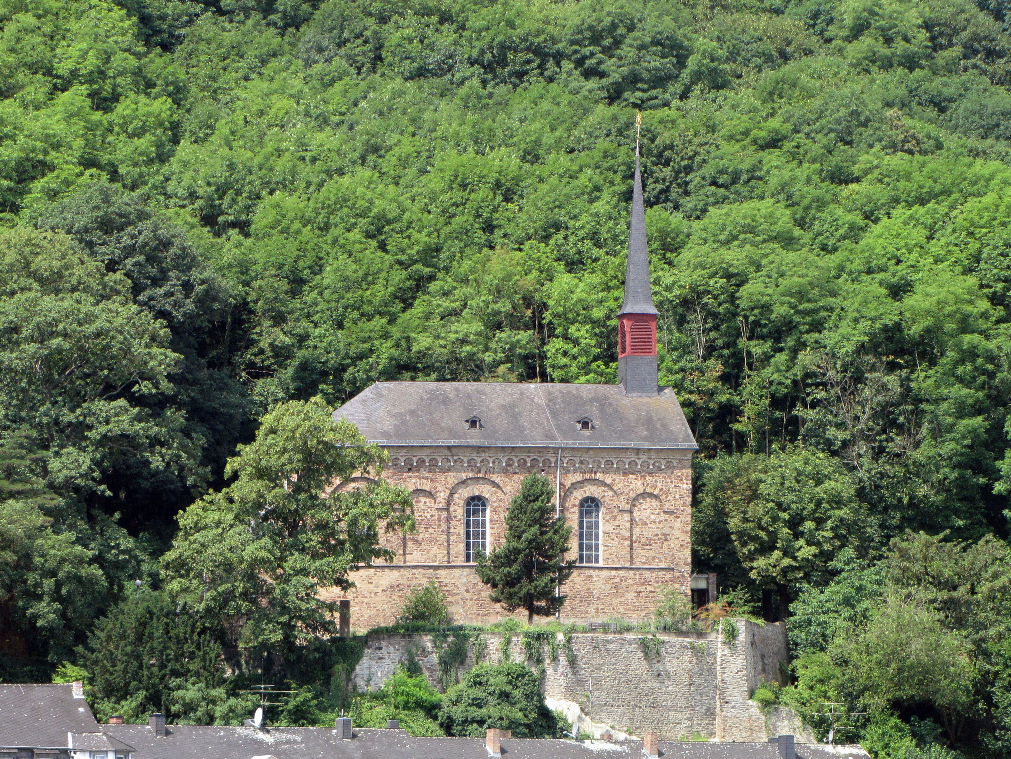 Church St. Menas in Koblenz-Stolzenfels